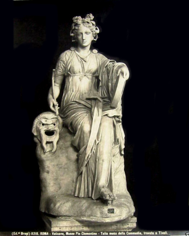 Carlo Brogi (1850-1925) - "Rome - Vatican - Museo Pio-Clementino - Thalia. Muse of Comedy. Found in Tivoli". Catalogue # 8318. Circa 1900. Today.